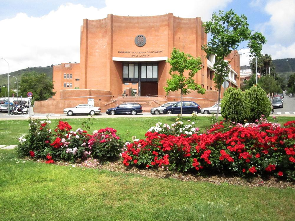 Vertex Building, UPC